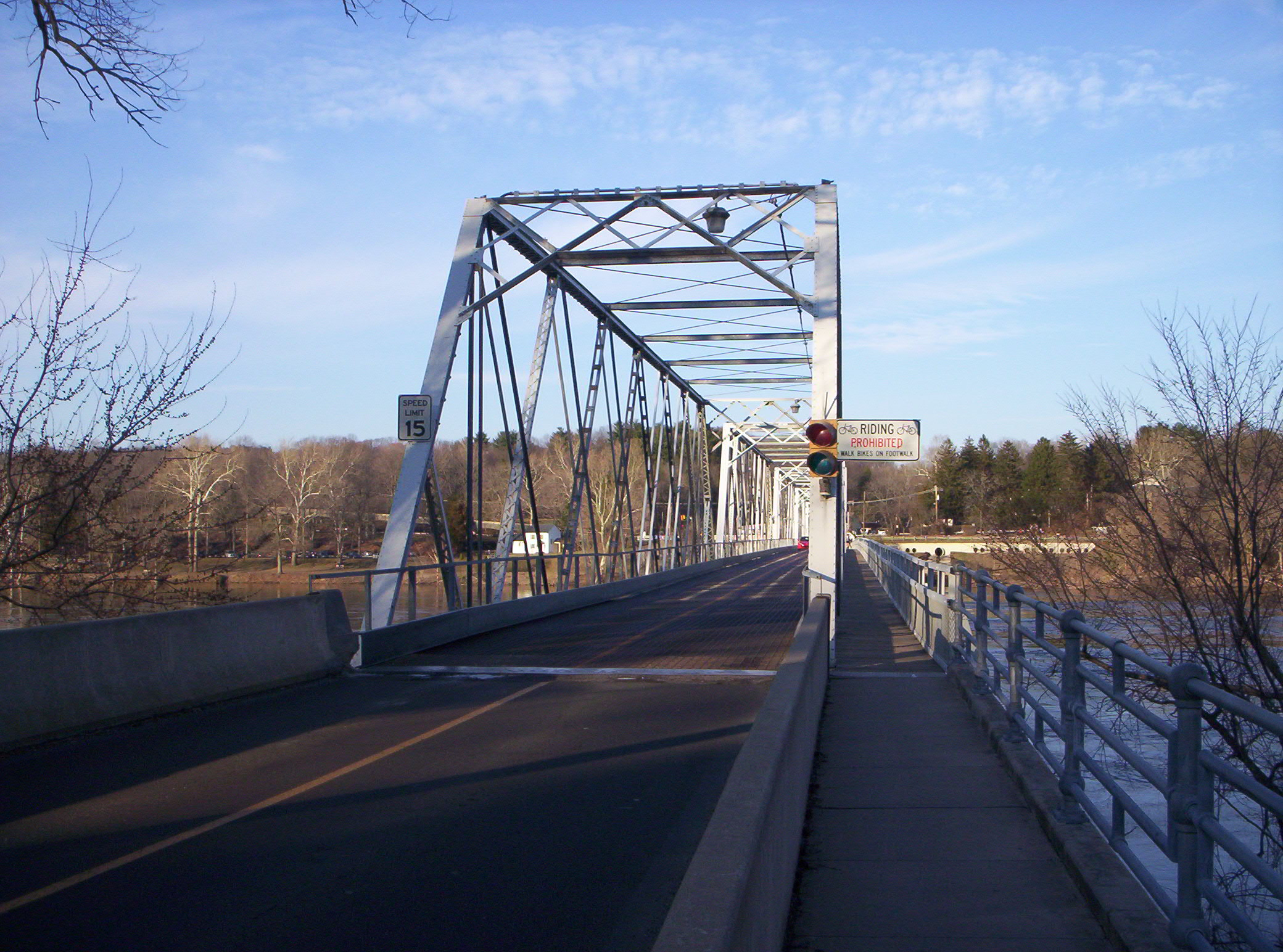 Washington Crossing Bridge-Pennsylvania approach